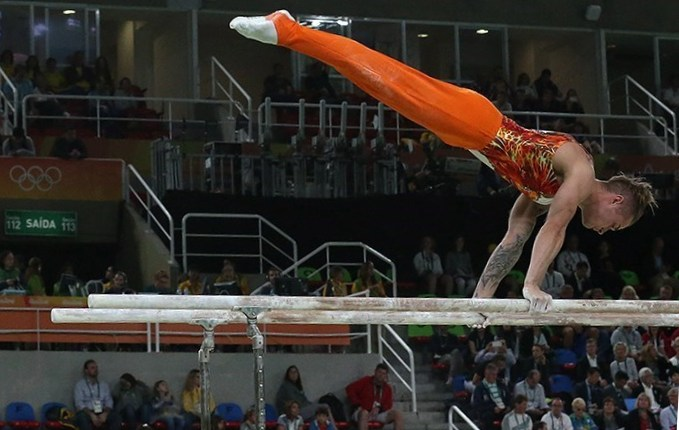 Gymnastics at the 2016 Summer Olympics